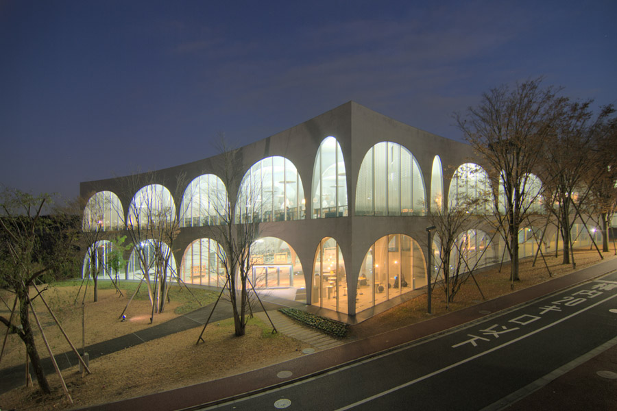 Tama Art University, library, architecture firm: Toyo Ito & Associates, Architects